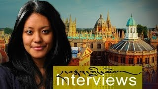 Tenzin Seldon.